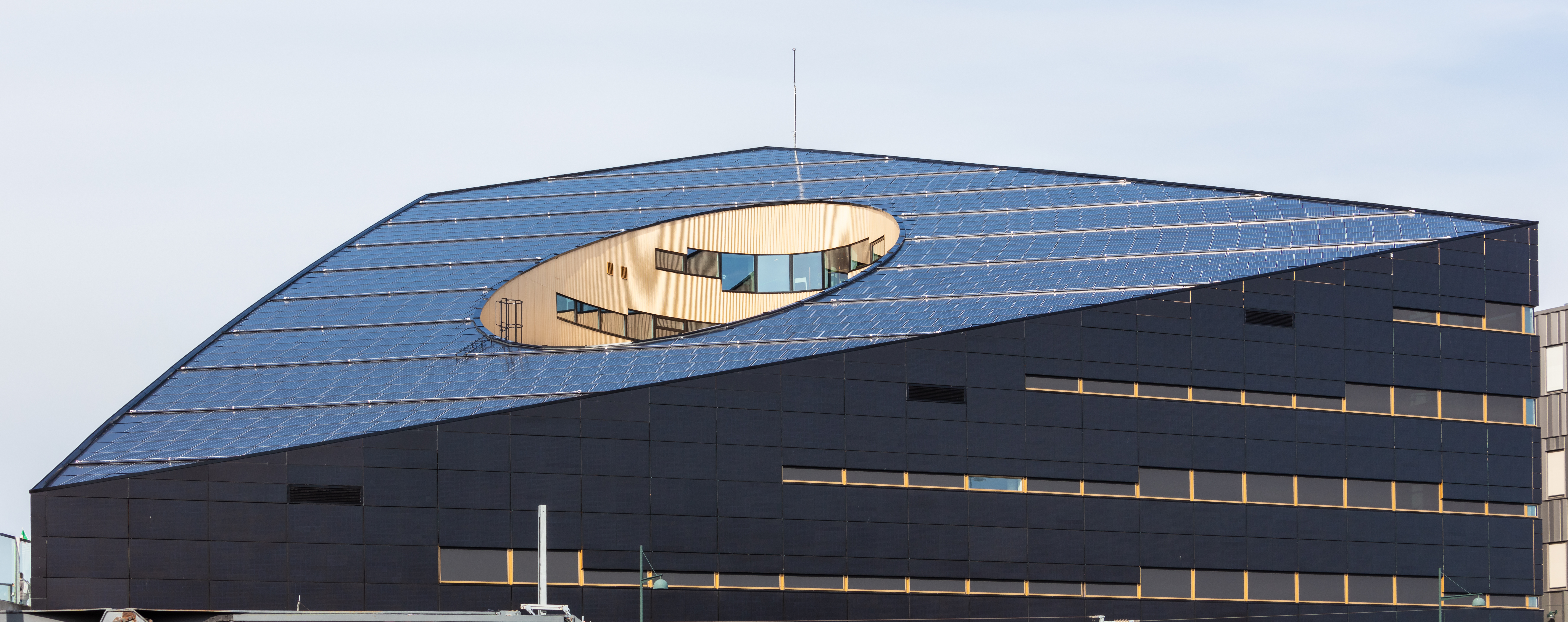 Powerhouse Brattørkaia, Trondheim, Norway. You can find more details about the building in this website.